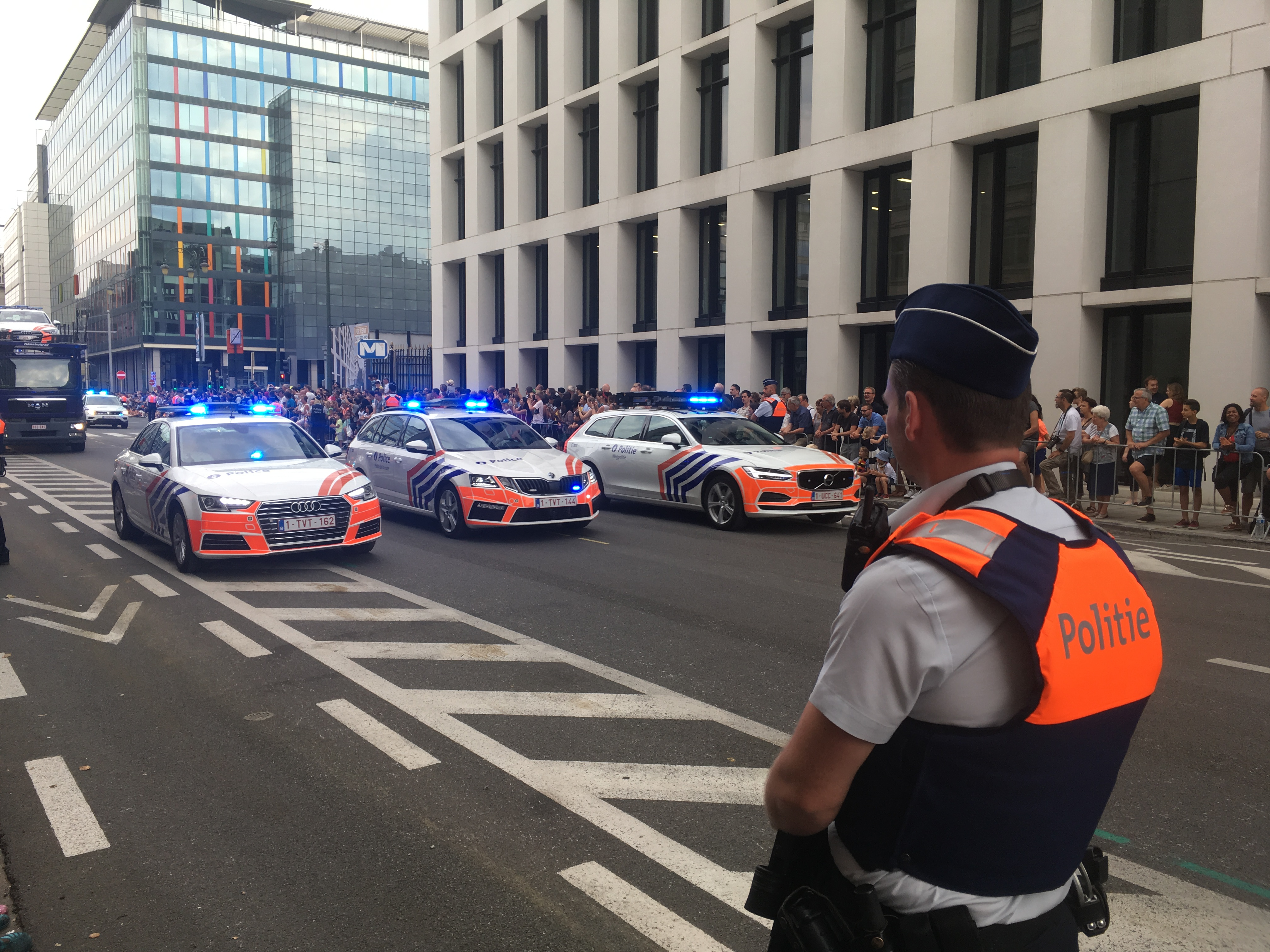 Federal road police and police officer during the National Parade on July 21, 2018